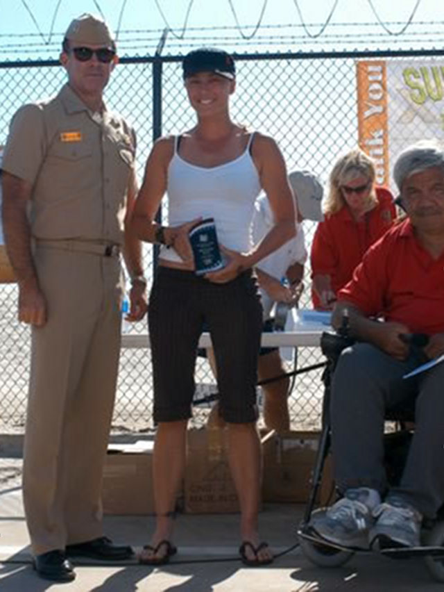 Amanda McKenzie honored at flower ceremony of 2006 Superfrog Triathlon in Coronado, CA